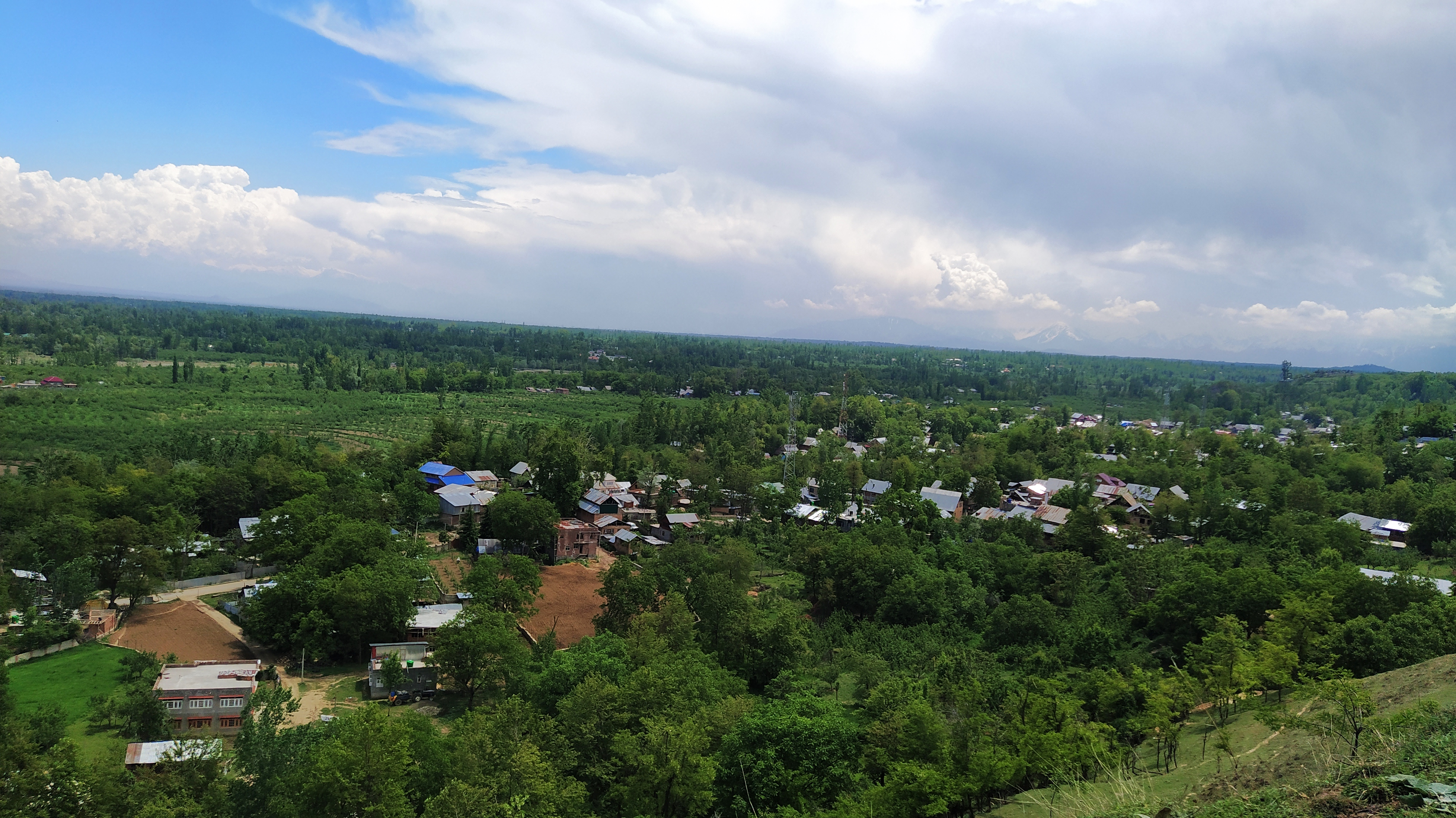 Aerial view of Rahmoo